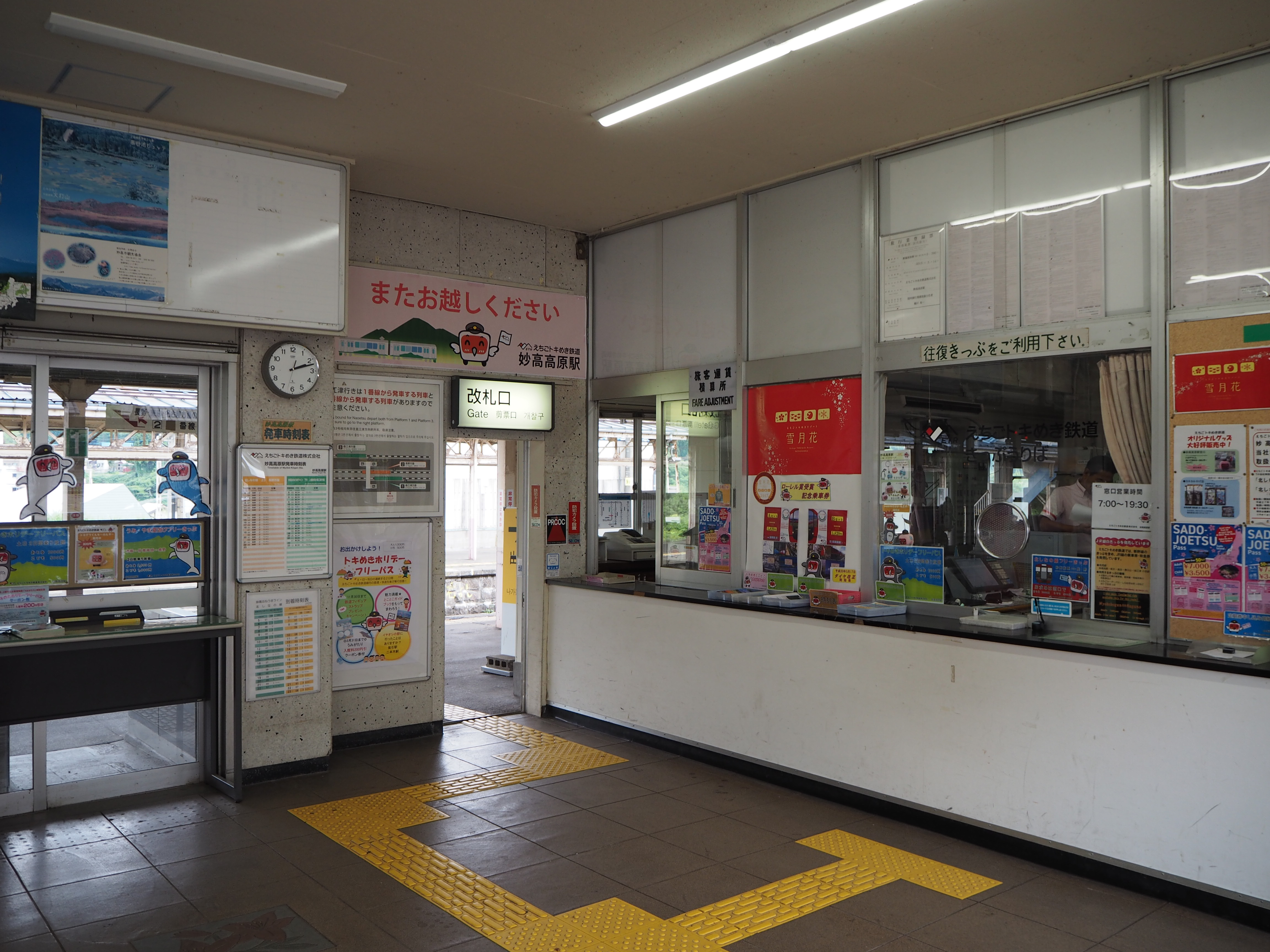 Ticket barriers of Myōkō-Kōgen Station